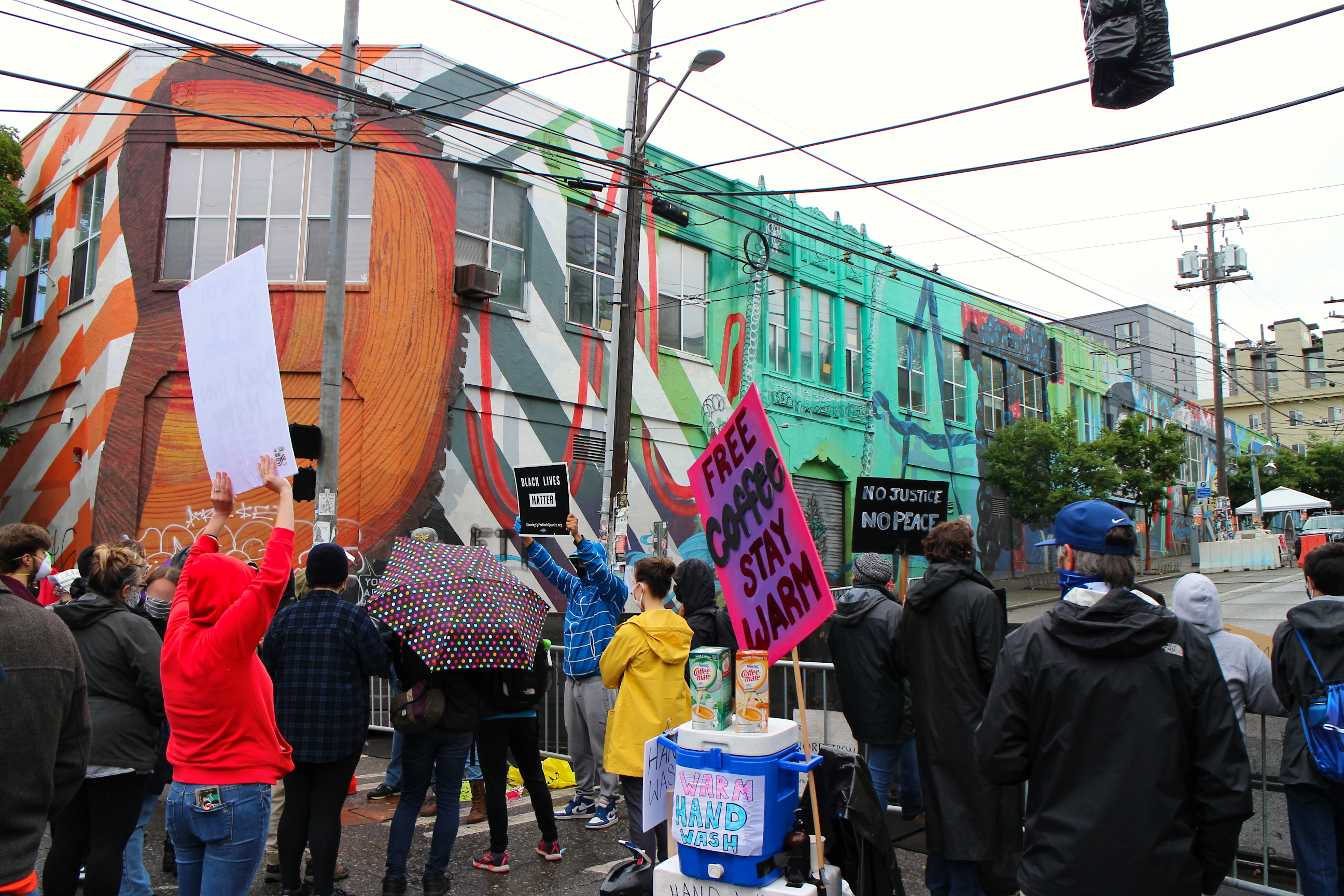 "Capitol Hill Autonomous Zone" area during the George Floyd protests in Seattle, Washington